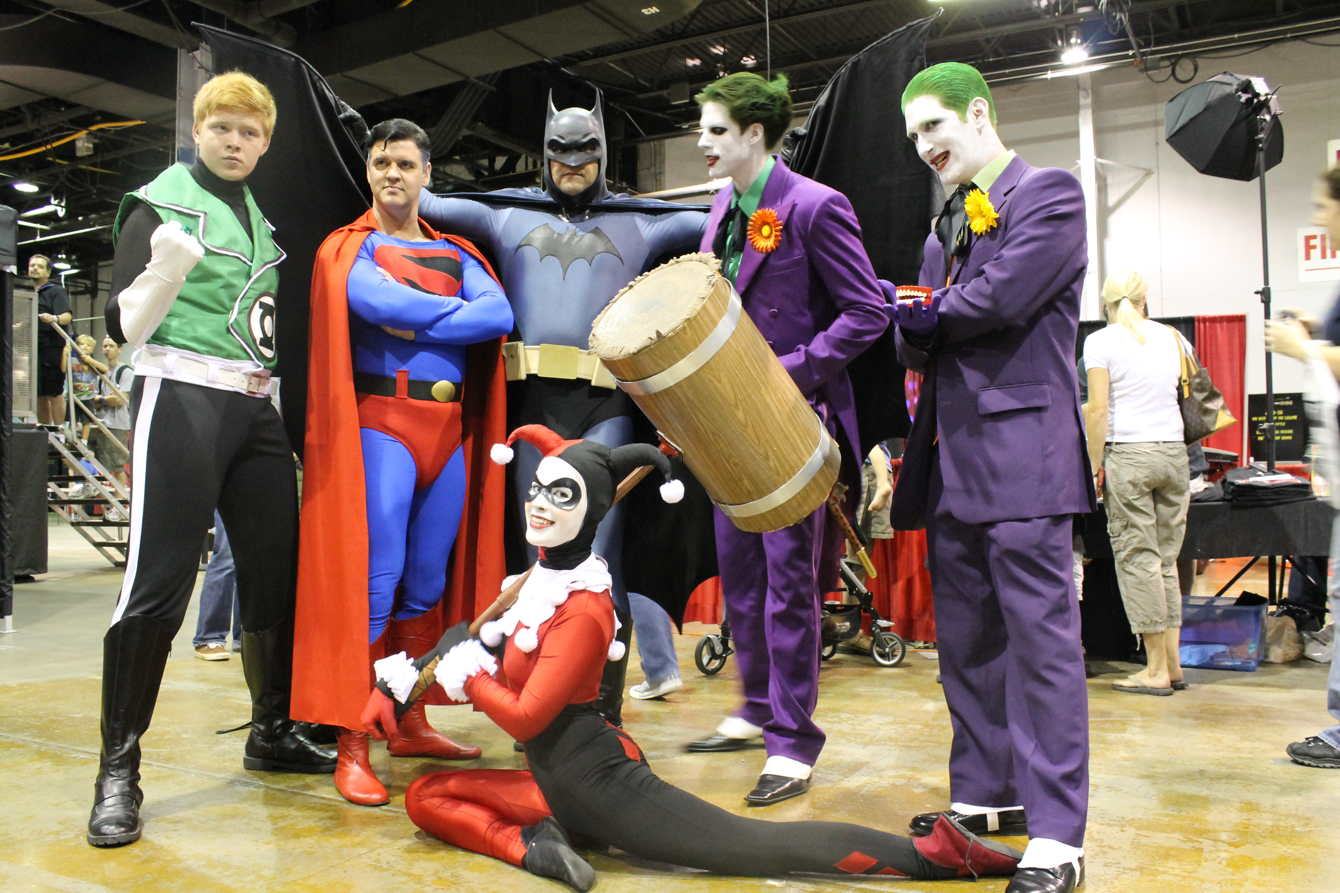 Chicago Comic Con 2011